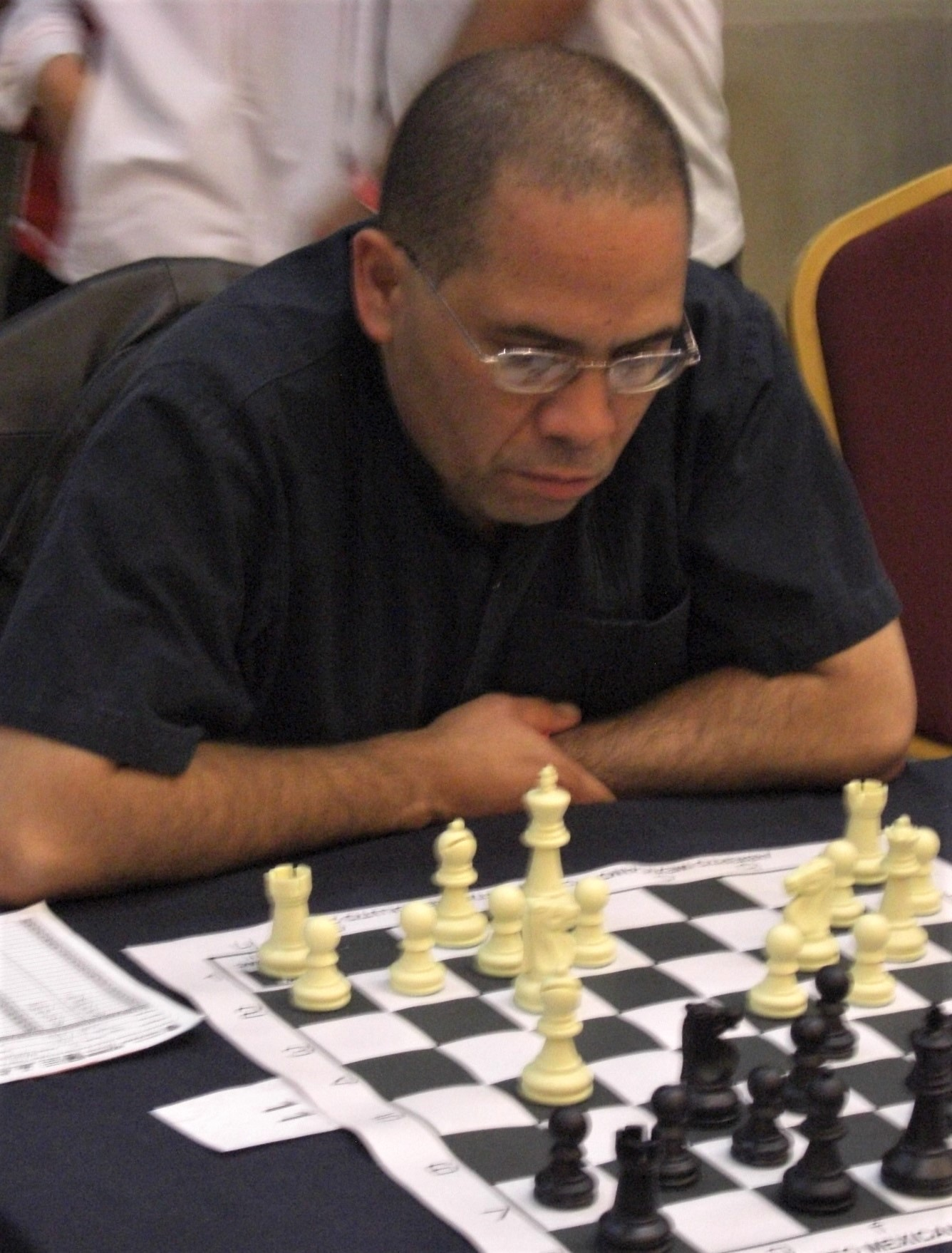 Juan Carlos Gonzales Zamora during the American Continental Chess Championship in Toluca (Mexico), April 2011